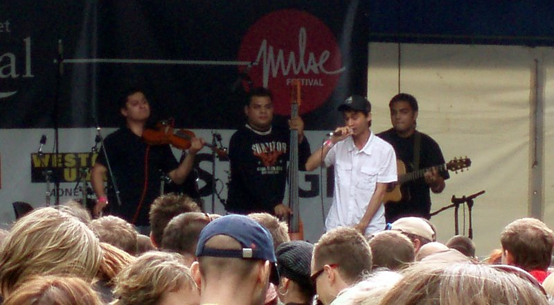 Gipsy CZ on stage at the South Bank